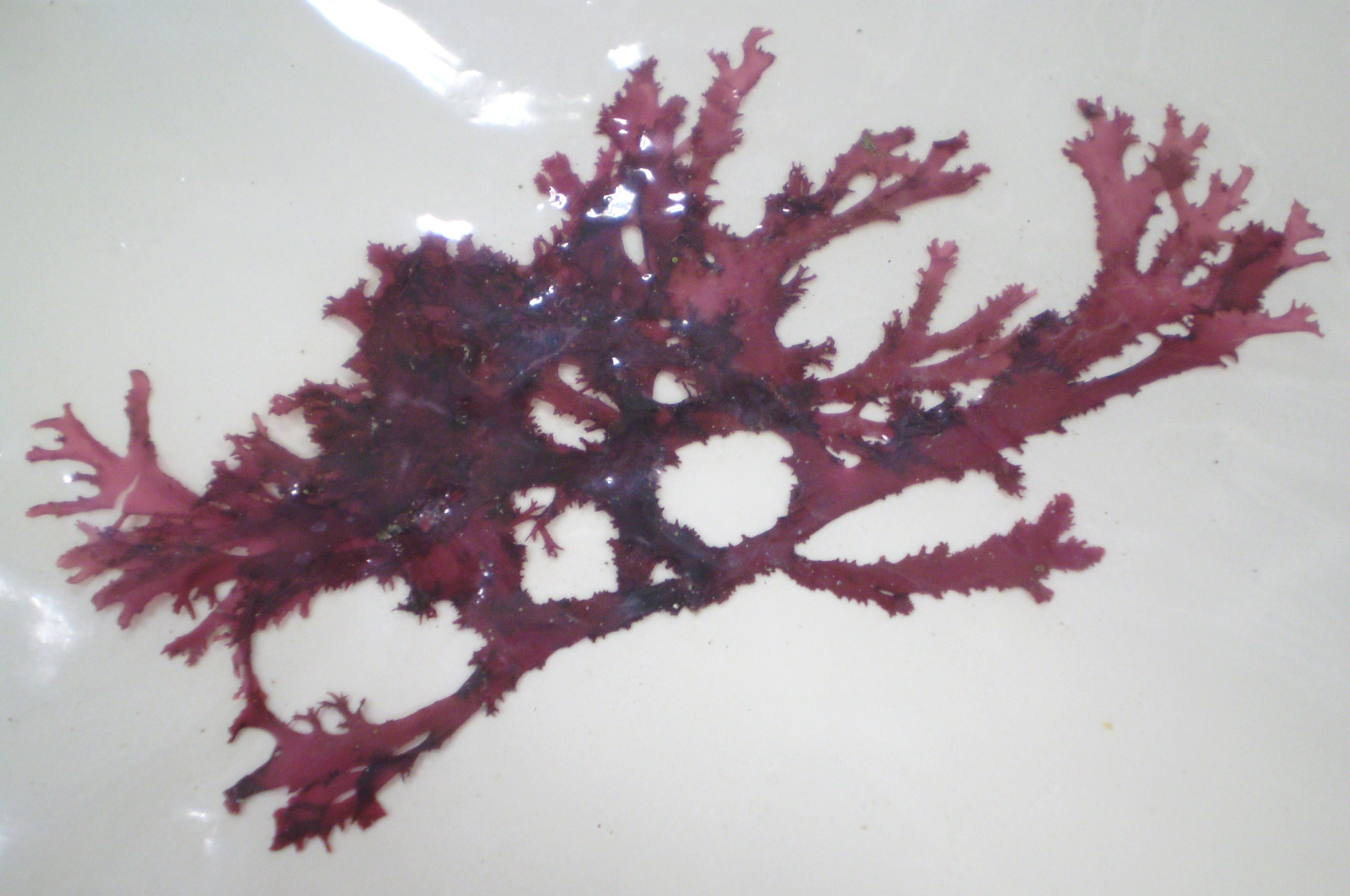 Specimen of Callophyllis japonica (Kallymeniaceae)